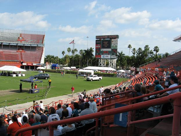 This was the "Farewell to the Orange Bowl" event. this is a donation to Wikipedia. Enjoy